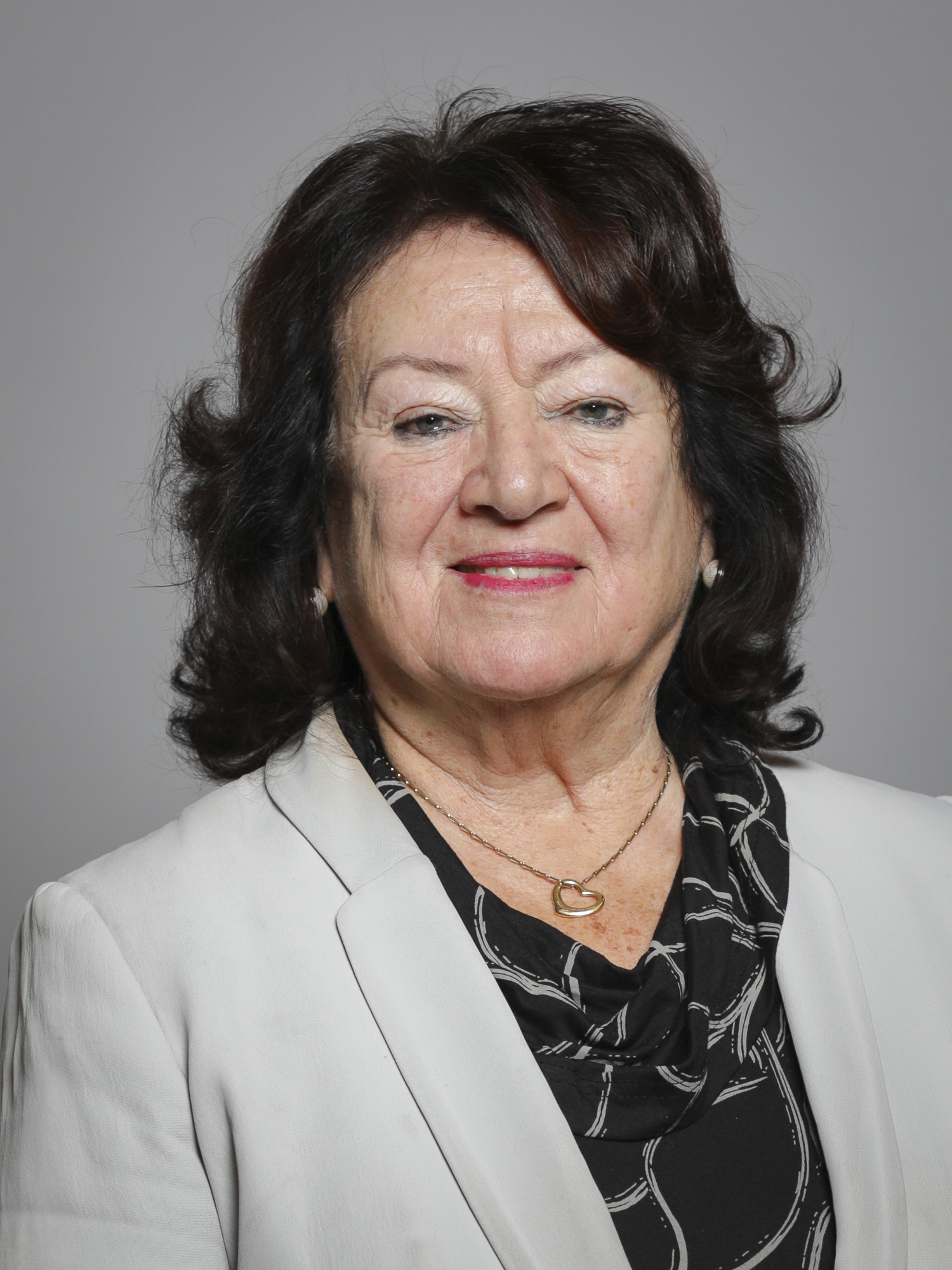 Official portrait of Baroness Eaton 3×4 portrait of Baroness Eaton